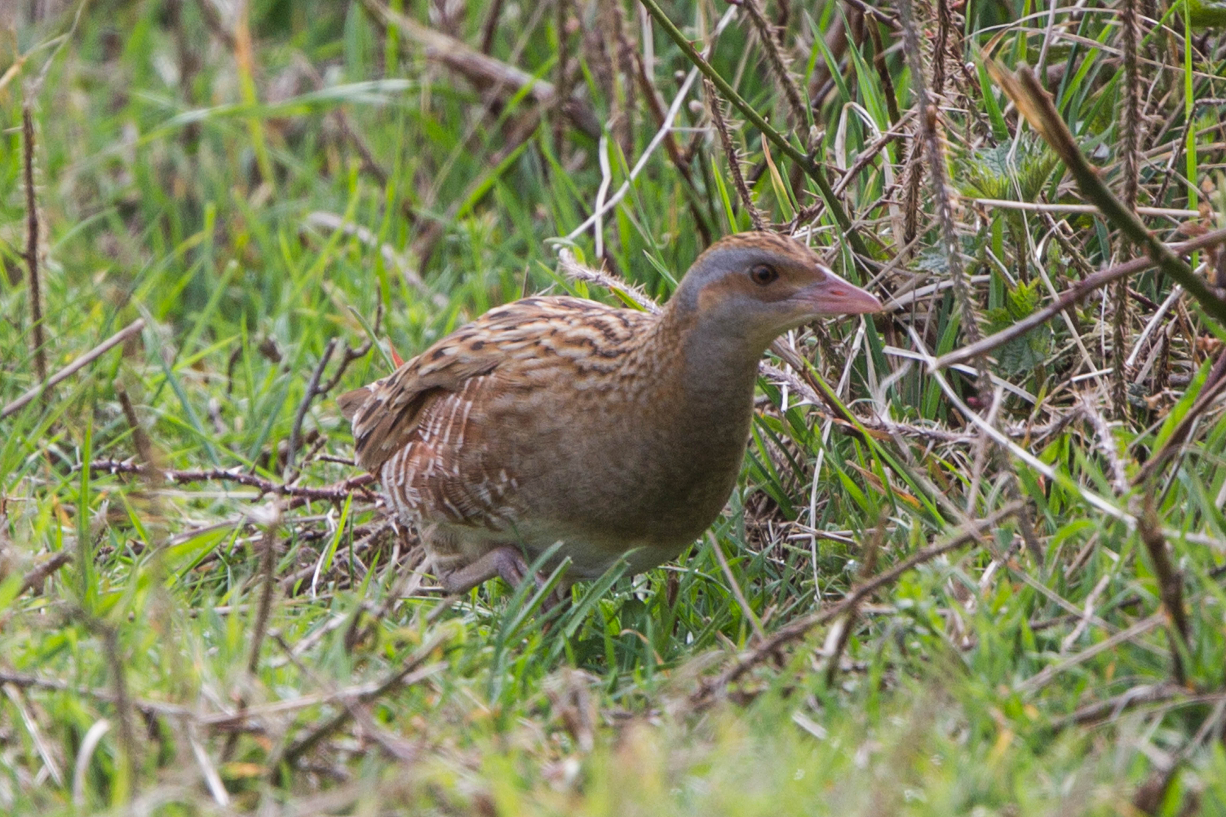 A Corn Crake Crex crex, at Chat Vale, Beachy Head, Sussex